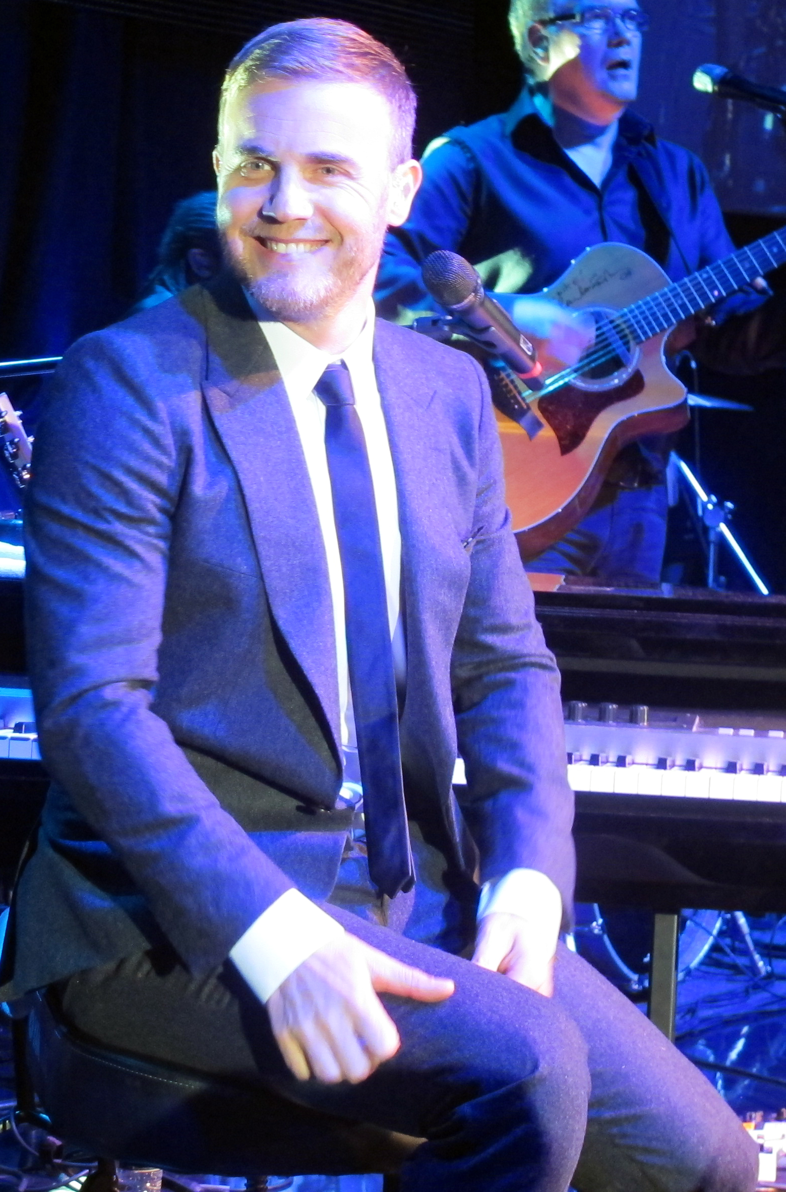 Gary Barlow: In concert in 2012